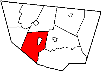 Map of Sullivan County with township and municipal bondaries is taken from US Census website [1] and modified by User:Ruhrfisch in August 2005. My modifications licensed under the GNU Free Documentation License. Source: US Census website [2], modified by User:Ruhrfisch